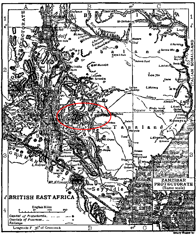 This 1911 map shows Mount Kenya simply as Kenya in British East Africa. The country Kenya did not exist at the time. Illustration from 1911 Encyclopædia Britannica, article British East Africa.